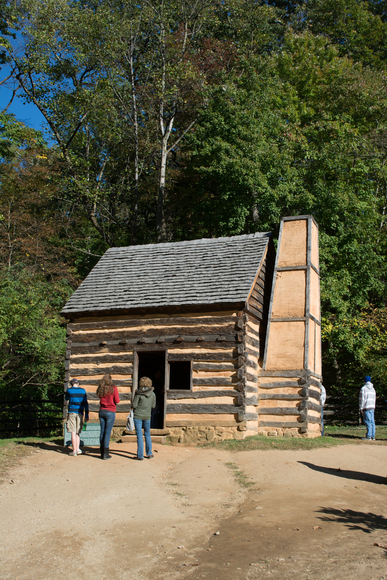 The Slave's Cabin, a historic recreation on the Pioneer Farm at Mount Vernon, the home of George Washington, near Mount Vernon, Virginia, in the United States.